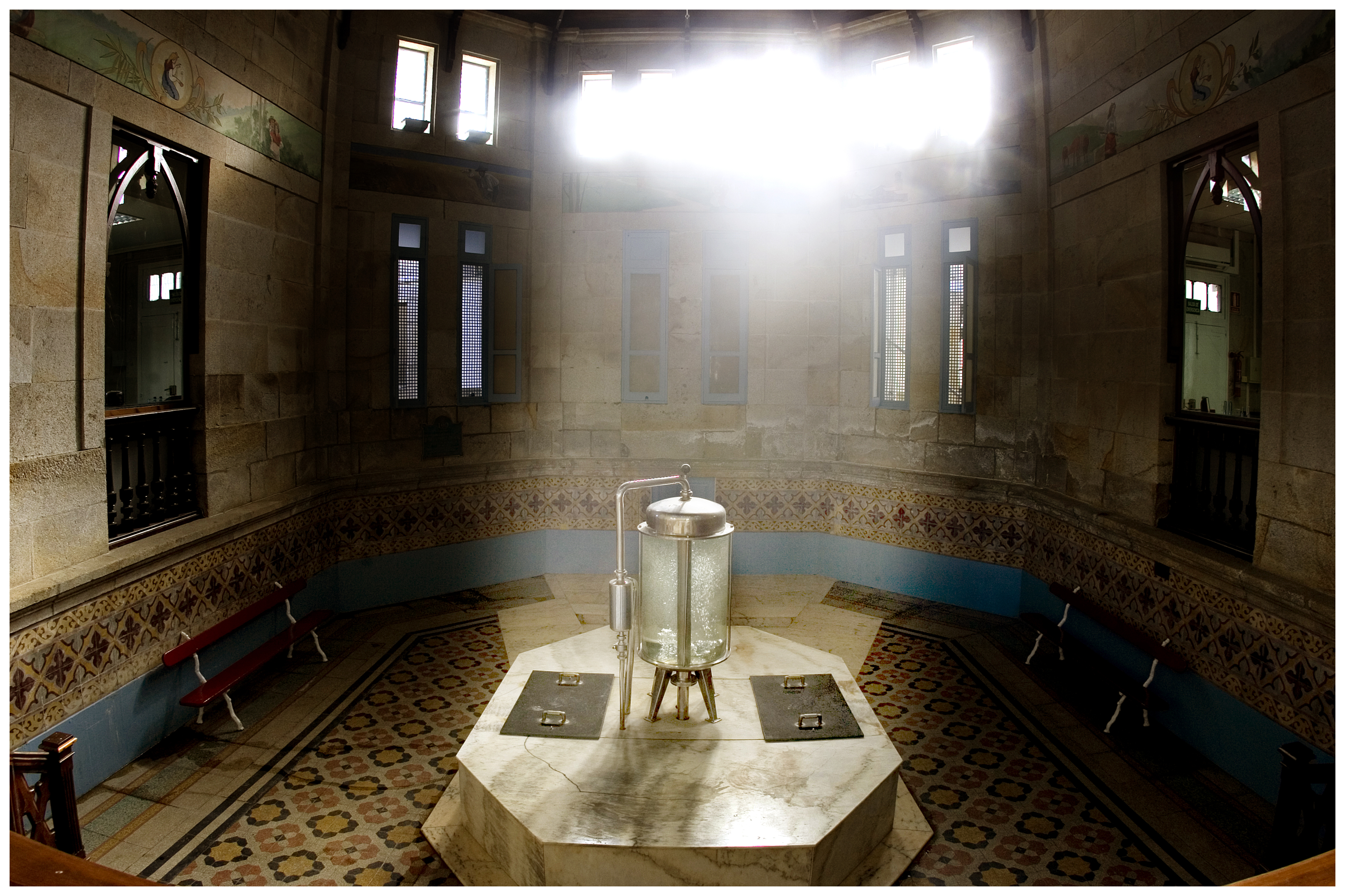 Interior manantial de Cabreiroá